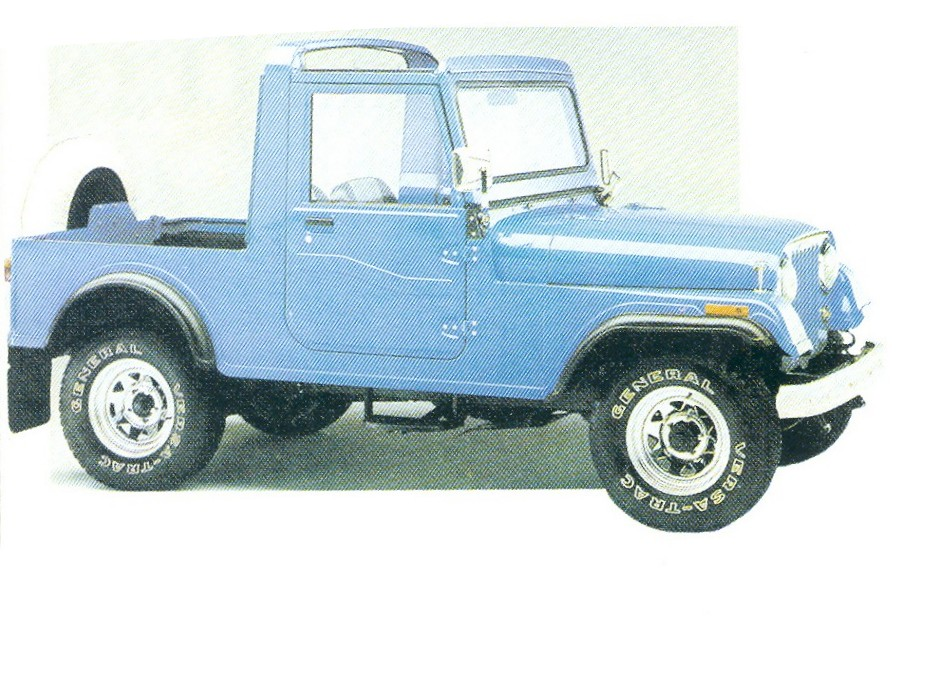 An image of a Balkania Autotractor KZ from my book "Made in Greece".